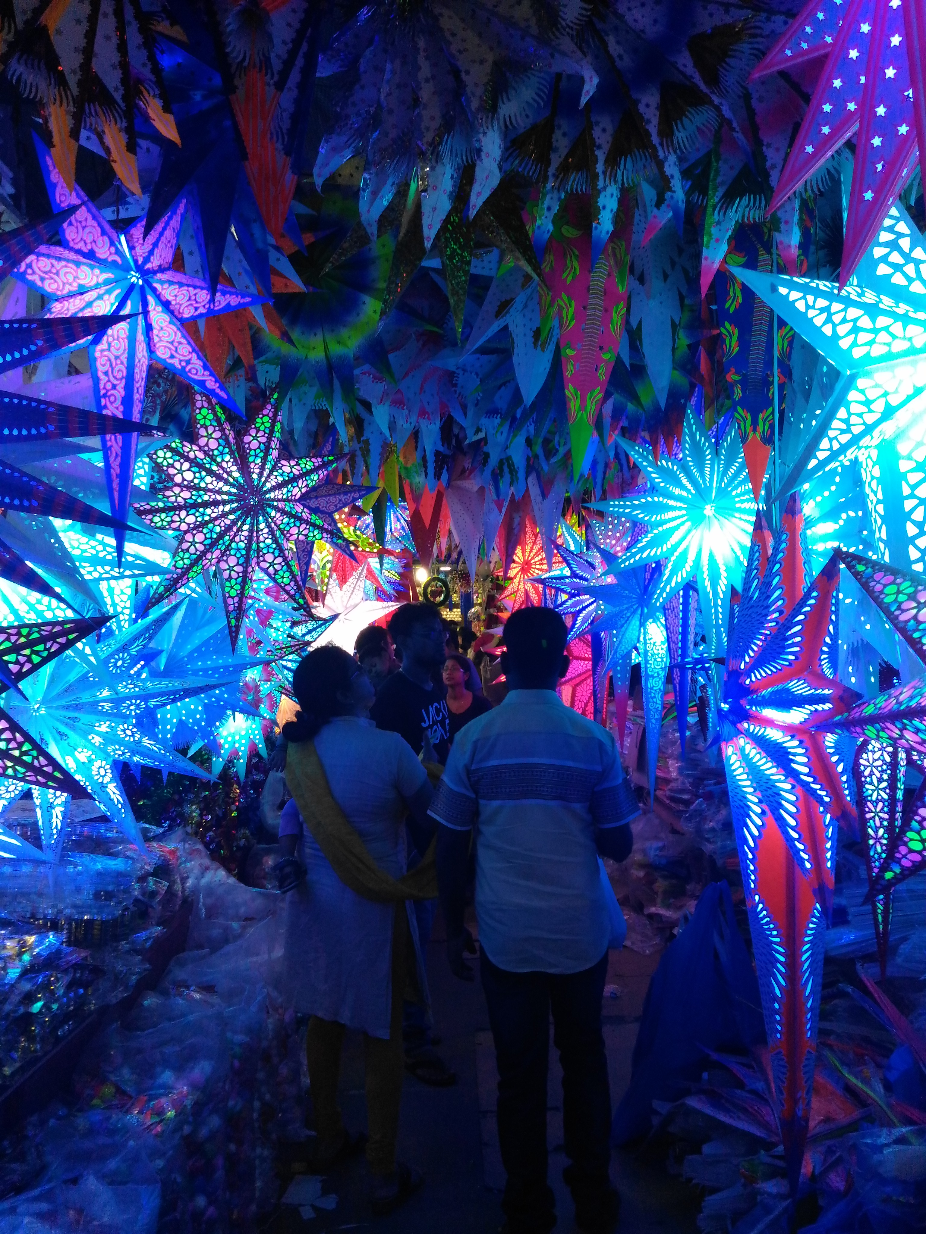 An alley of Christmas star shops in Ernakulam